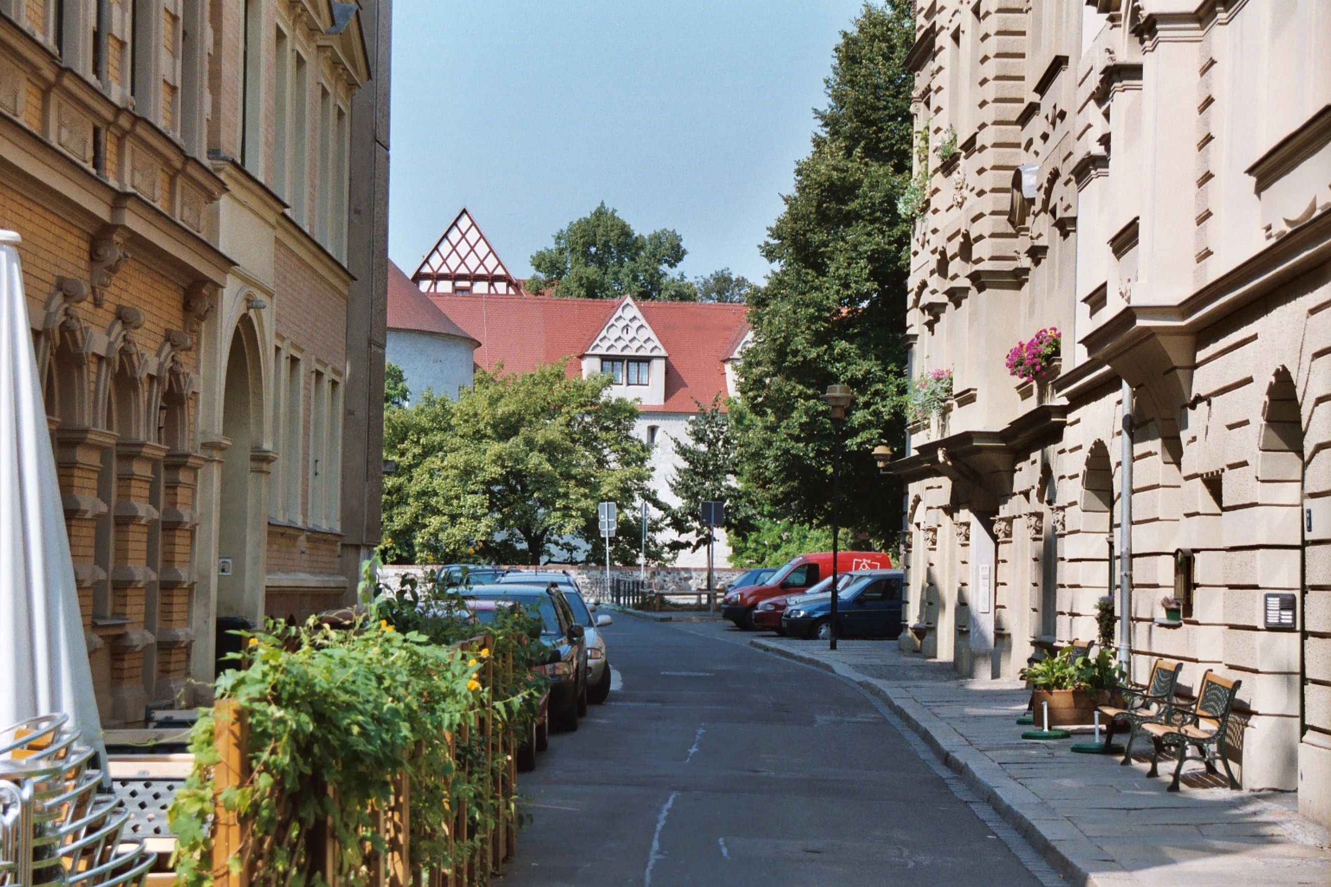 Halle (Saale), the Bergstraße